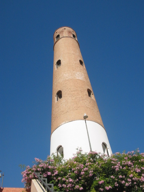 Shot tower of former "San Andrés" foundry, in Adra (Almería, Spain)